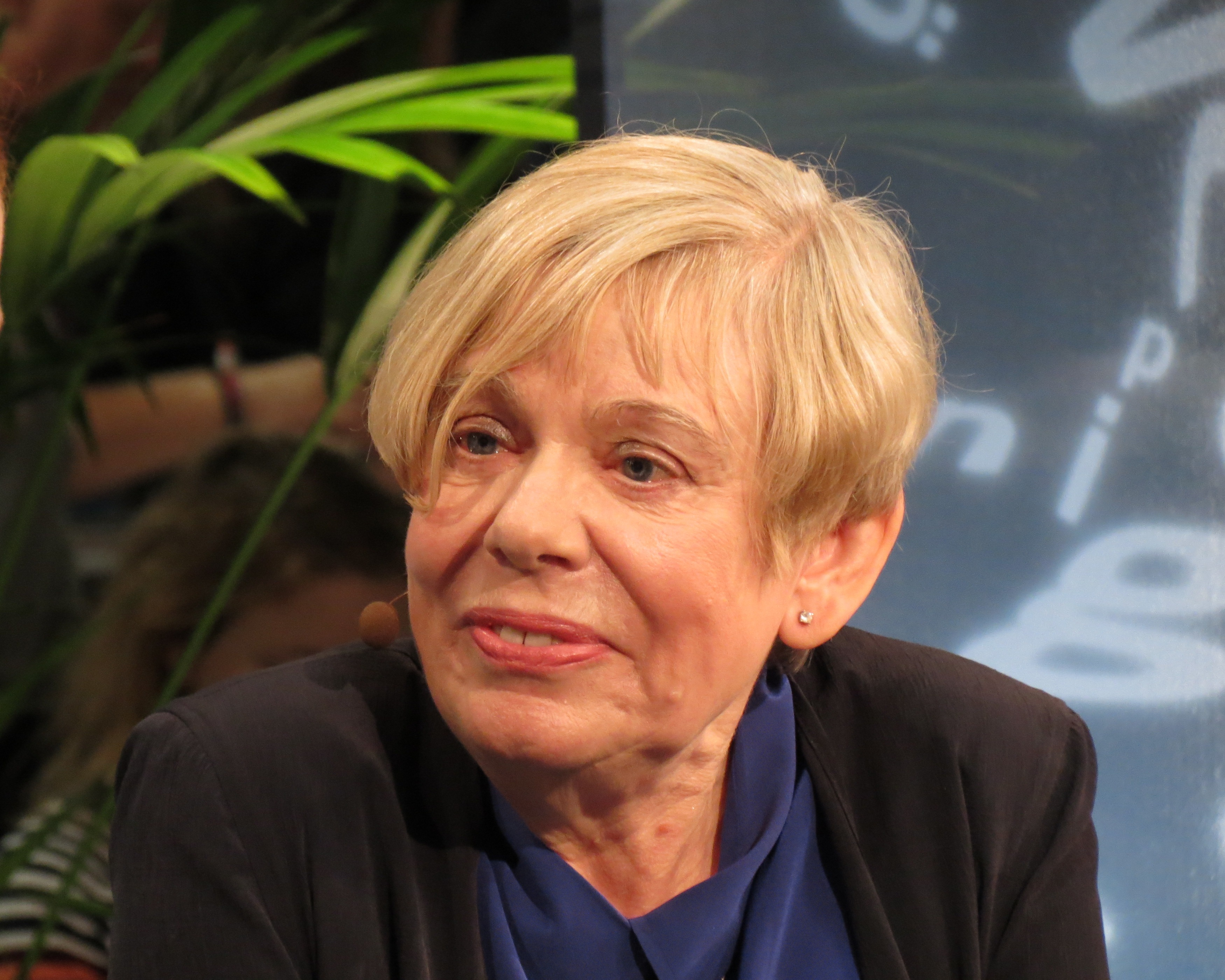 Karen Armstrong during an interview in swedish literature TV-show Babel. The show was recorded at the Göteborg Book Fair on september 23rd and broadcasted on the 25th on SVT2.